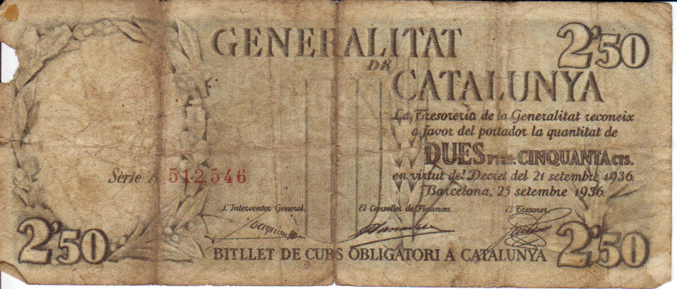 Catalonia bank note, observe Scan from own collection